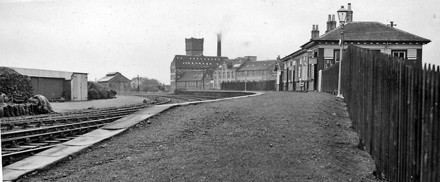 Beith Town (Joint) Station. Near to Beith, North Ayrshire, Great Britain. View SE from buffer-stops. This dilapidated and deserted station was the terminus of the former Glasgow, Barrhead & Kilmarnock (Caledonian & Glasgow & South Western) branch from Lugton, closed a year later (5/11/62) to passengers, to goods on 5/10/64. See also Barrmill at NS3651 : Barrmill Station .